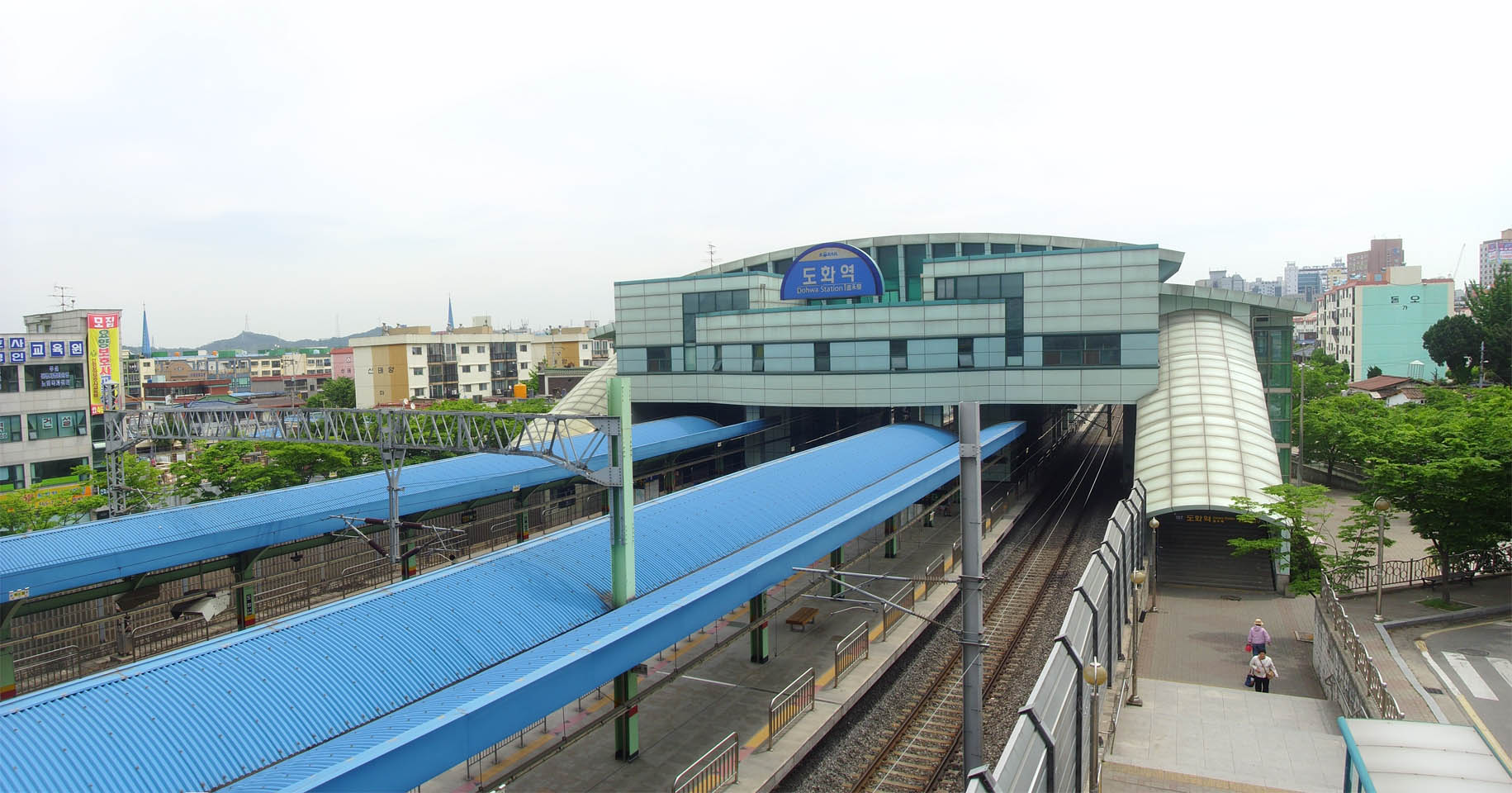 Gyeongin Line Dohwa Station